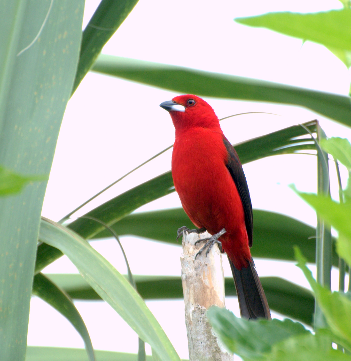 Brazilian Tanager at Vale do Ribeira, Registro-SP, Brazil.